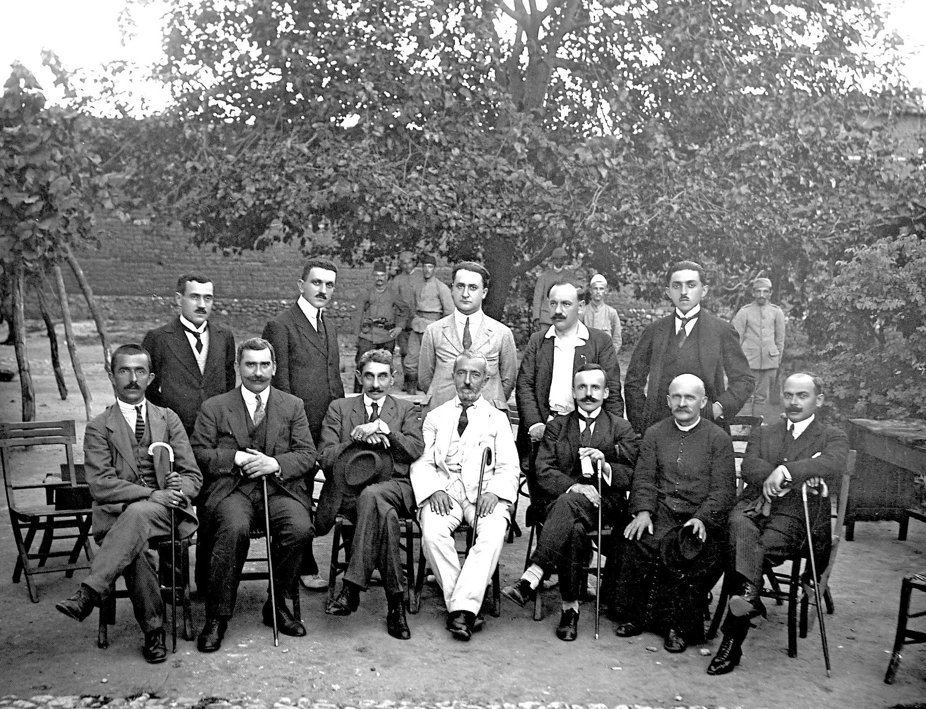 A group of the members of the first elected Albanian Parliament in 1921: standing from left to right Kolë Thaçi, Shuk Gurakuqi, Patuk Saraçi, Riza Dani, Maliq Bushati, sitting from left to right Osman Haxhija, Luigj Gurakuqi, Pandeli Evangjeli, Ibrahim Xhindi, Mustafa Kruja, Dom Ndre Mjeda, Spiro Jorgo Koleka